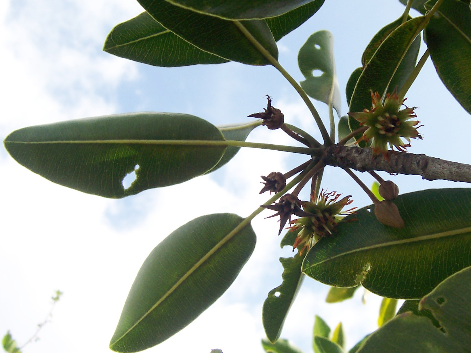 Photo : B.navez - 09 JAN 2006 - Saint-Philippe (Reunion island) Flowers of Mimusops maxima (Sapotaceae)